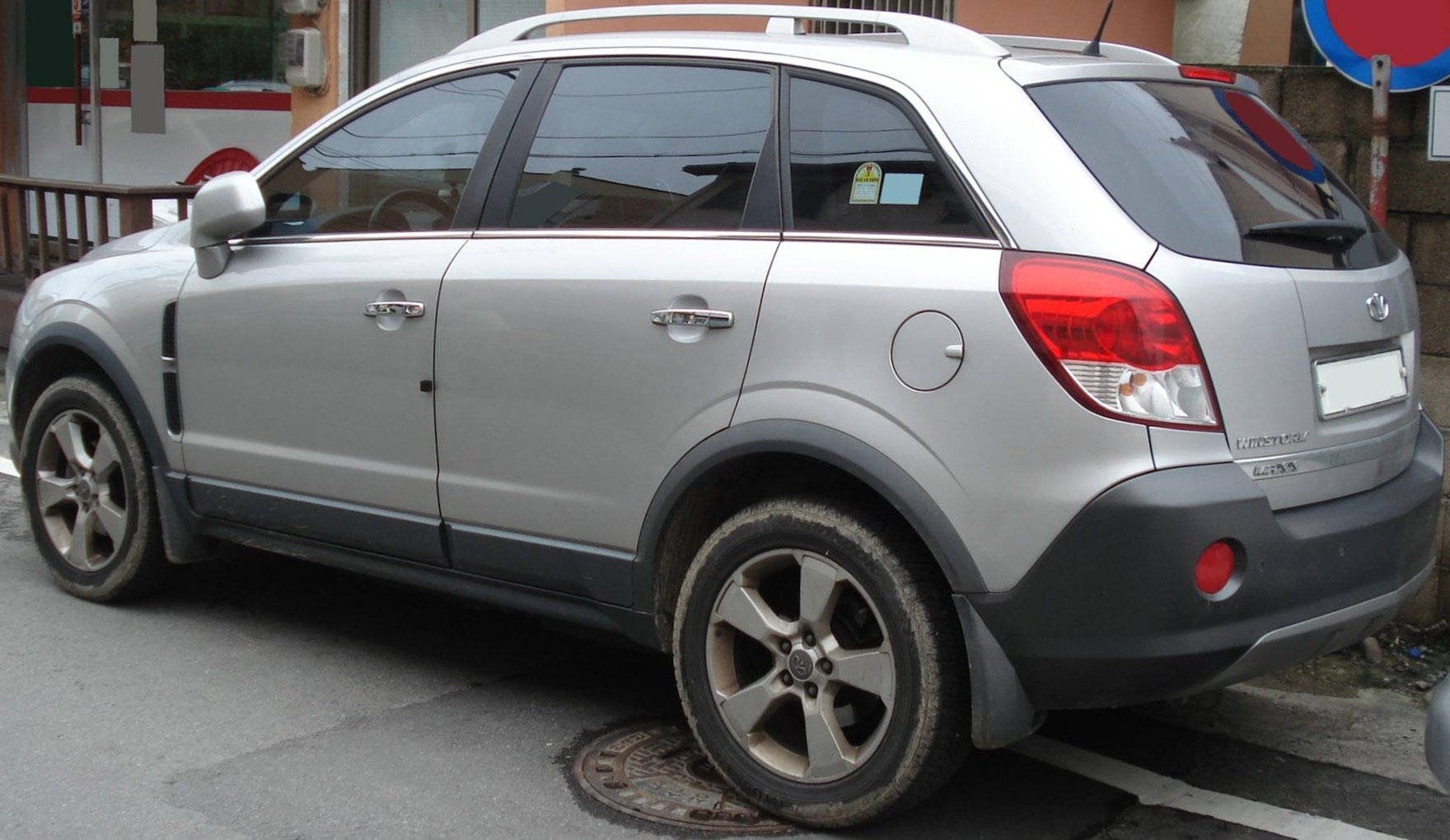 Daewoo Winstorm Maxx